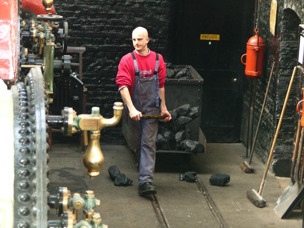 Photo of a stoker. Steam is raised at the Engineerium in the traditional way. Coal stoked boilers and a lot of hard work. Note also that this is a Lancashire boiler, rather than an earlier Cornish boiler, as can be seen by the frontplate seam being flanged outwards rather than inwards.